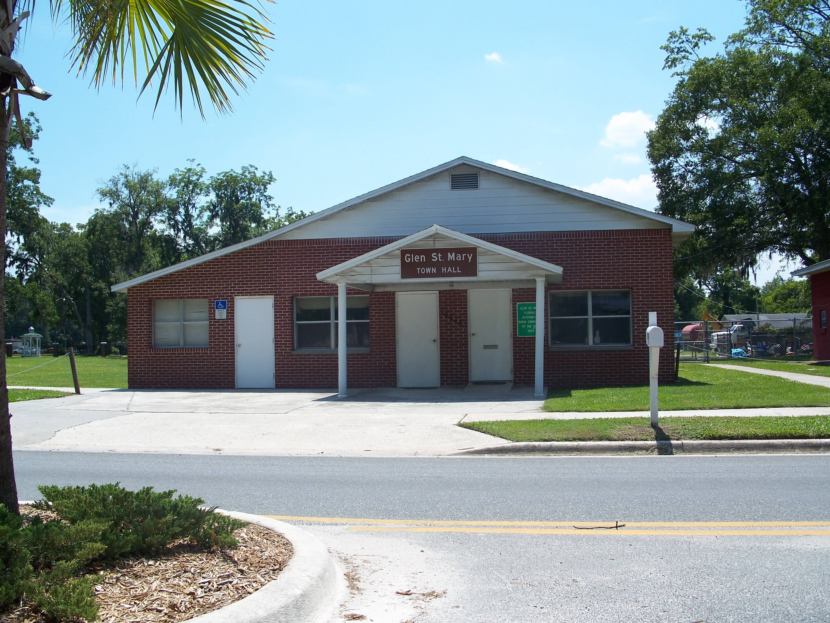 Glen Saint Mary town hall, in Glen St. Mary, Florida